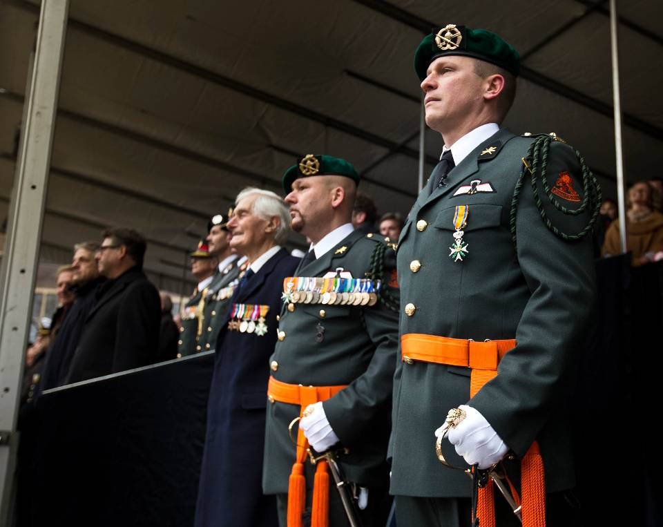 Knighting of Gijs Tuinman, 2014. Image of all the knights present. From left to right Kenneth Mayhew, Marco Kroon, Gijs Tuinman.